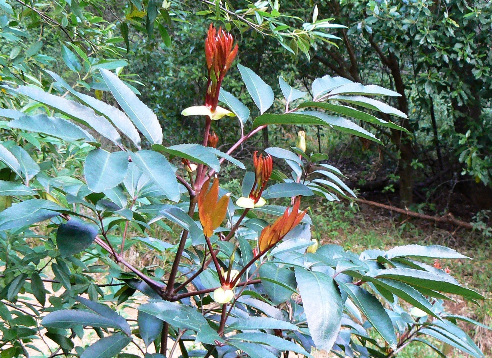 New foliage of the Red Alder or Butterspoon, photographed on Table Mountain, Cape Town IsiZulu: umLulama